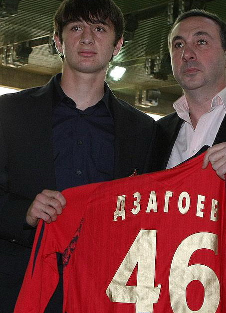 Alan Dzagoev